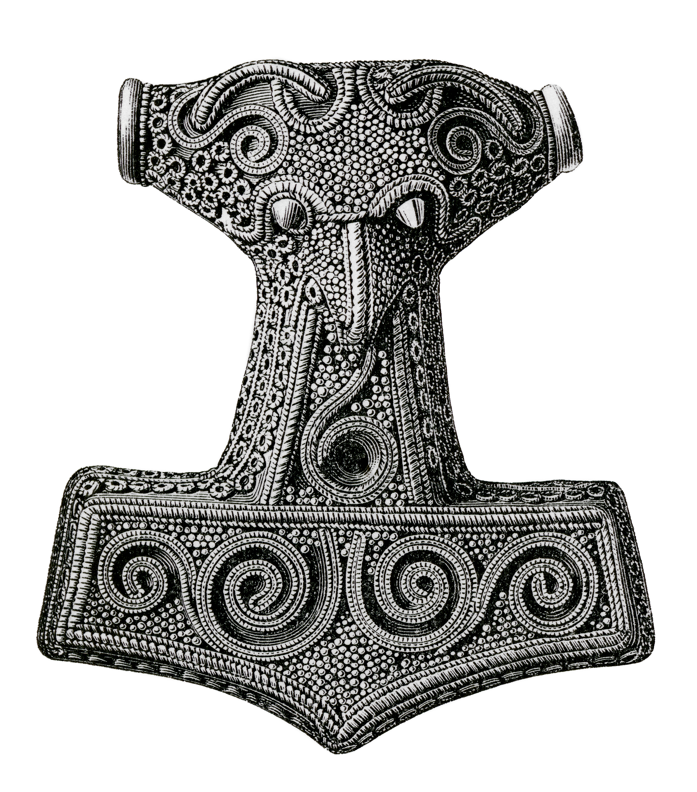 This Thor's hammer of silver with filigree ornamentation was found in an unknown place in Skåne and did belong to a collecton owned by the baron Claes Kurck, but was donated to the Historical Museum in Stockholm in the year 1895. Unreliable sources says that the hammer was found in Kabbarp near Staffanstorp in Skåne, Sweden.